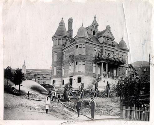 Alfred E. Clarke Mansion under construction in the 1870s, San Francisco, CA